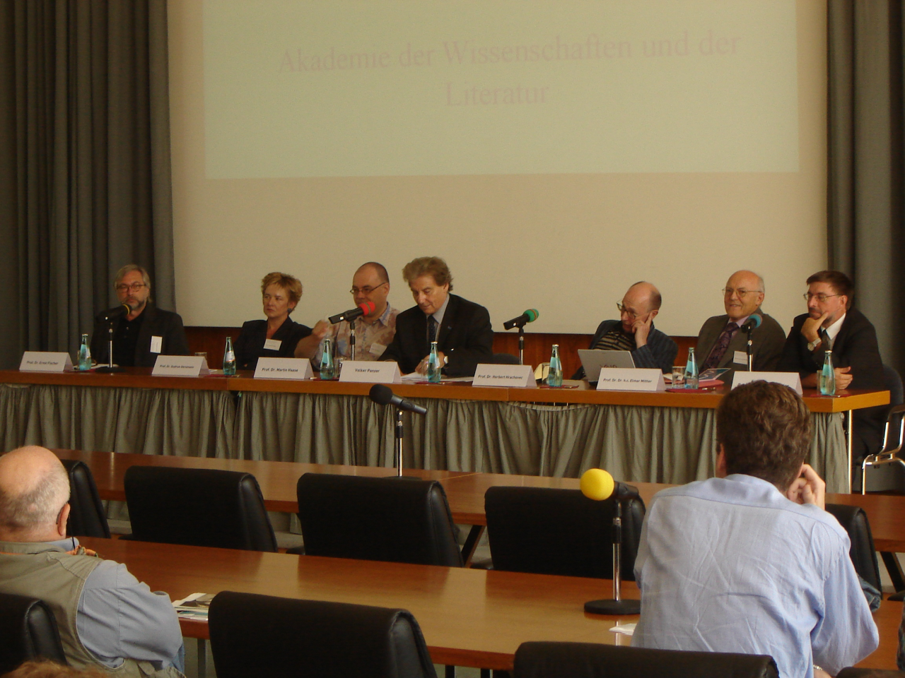 Image of the panel discussion during the Wikipedia Academy 2007 in Germany